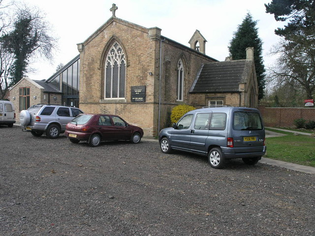 St Saviour's parish church, Main Street, Auckley, South Yorkshire, seen from the northeast